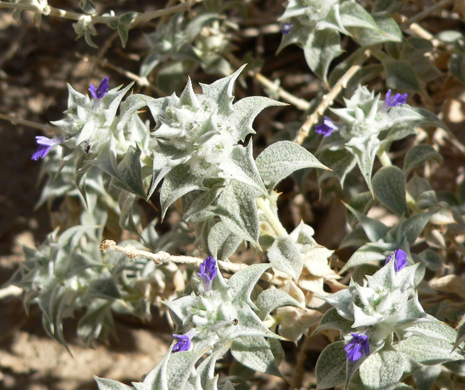 Salvia funerea in Titus Canyon, Death Valley, California